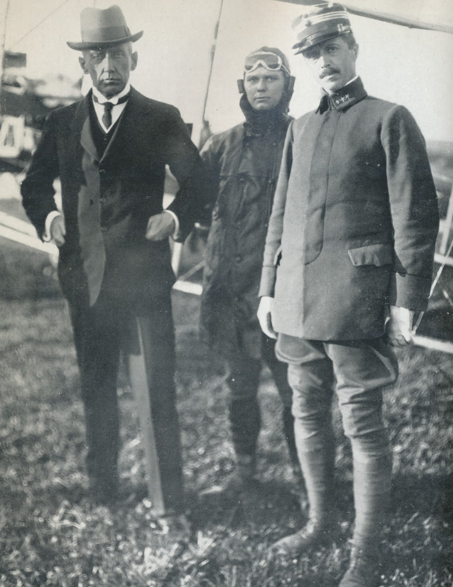 Roald Amundsen, Robert Stephanson, Einar Sem-Jacobsen